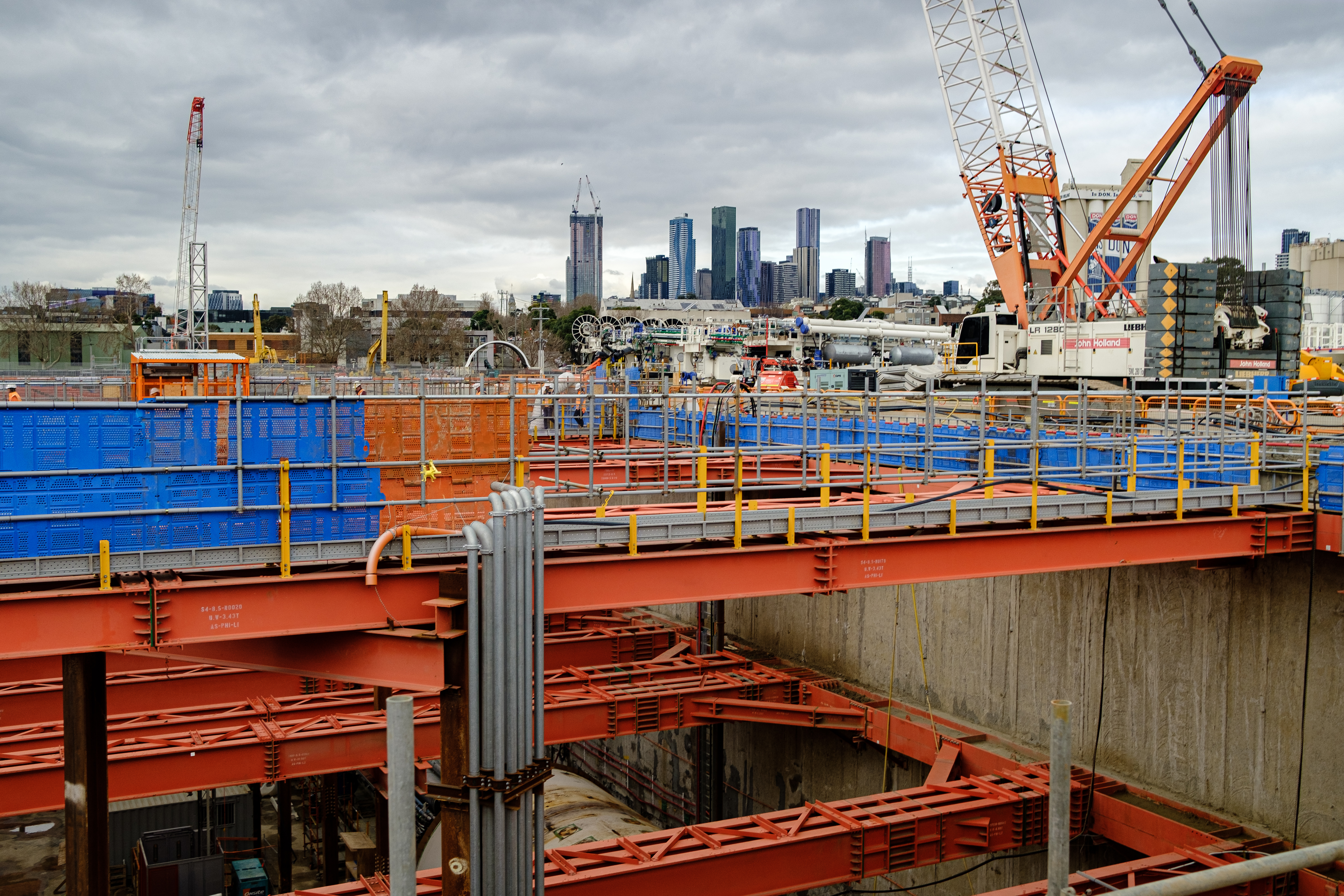 Photo of construction site of North Melbourne station as part of a community tour day on August 4 2019.